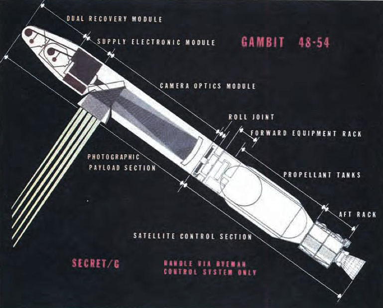 schematics of GAMBIT-3 attached to Agena D